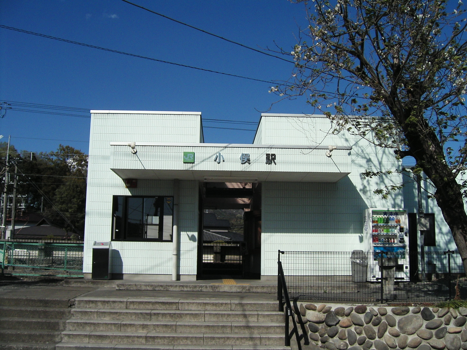 Omata station (Ryomo Line) in Tochigi pref, Japan 小俣駅（両毛線）